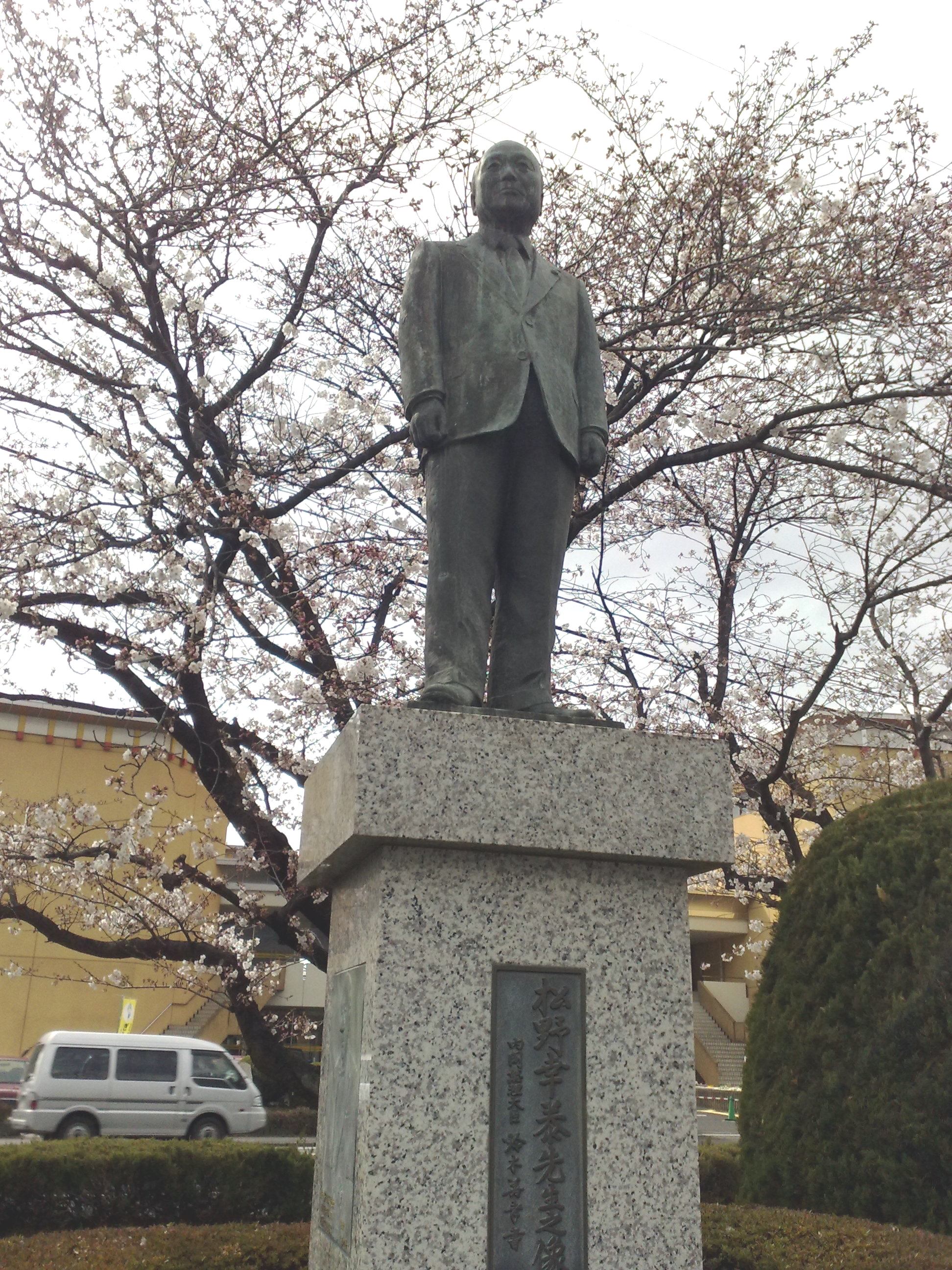 Statue of MATSUNO Yasuyuki